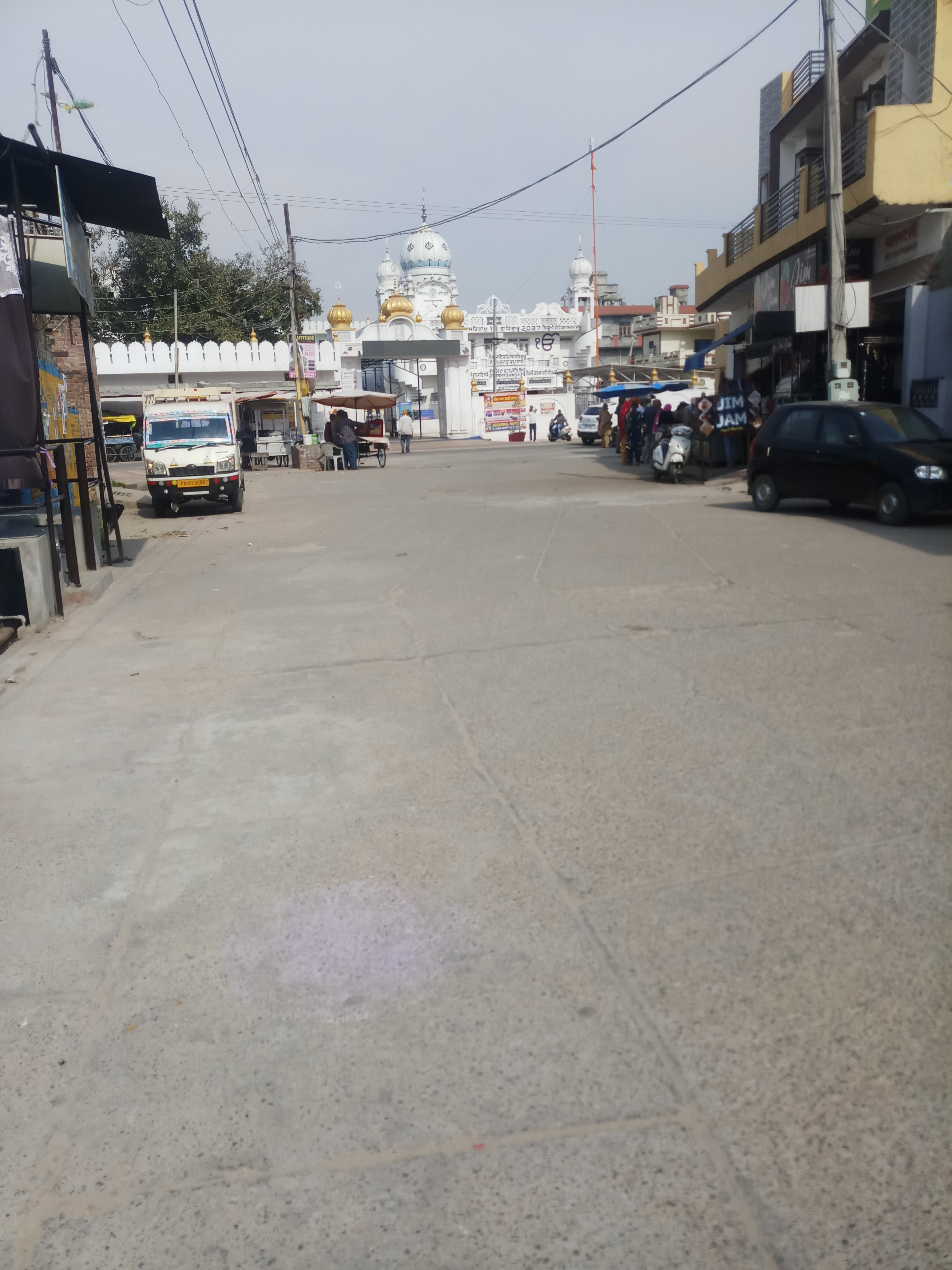 This is captured by me